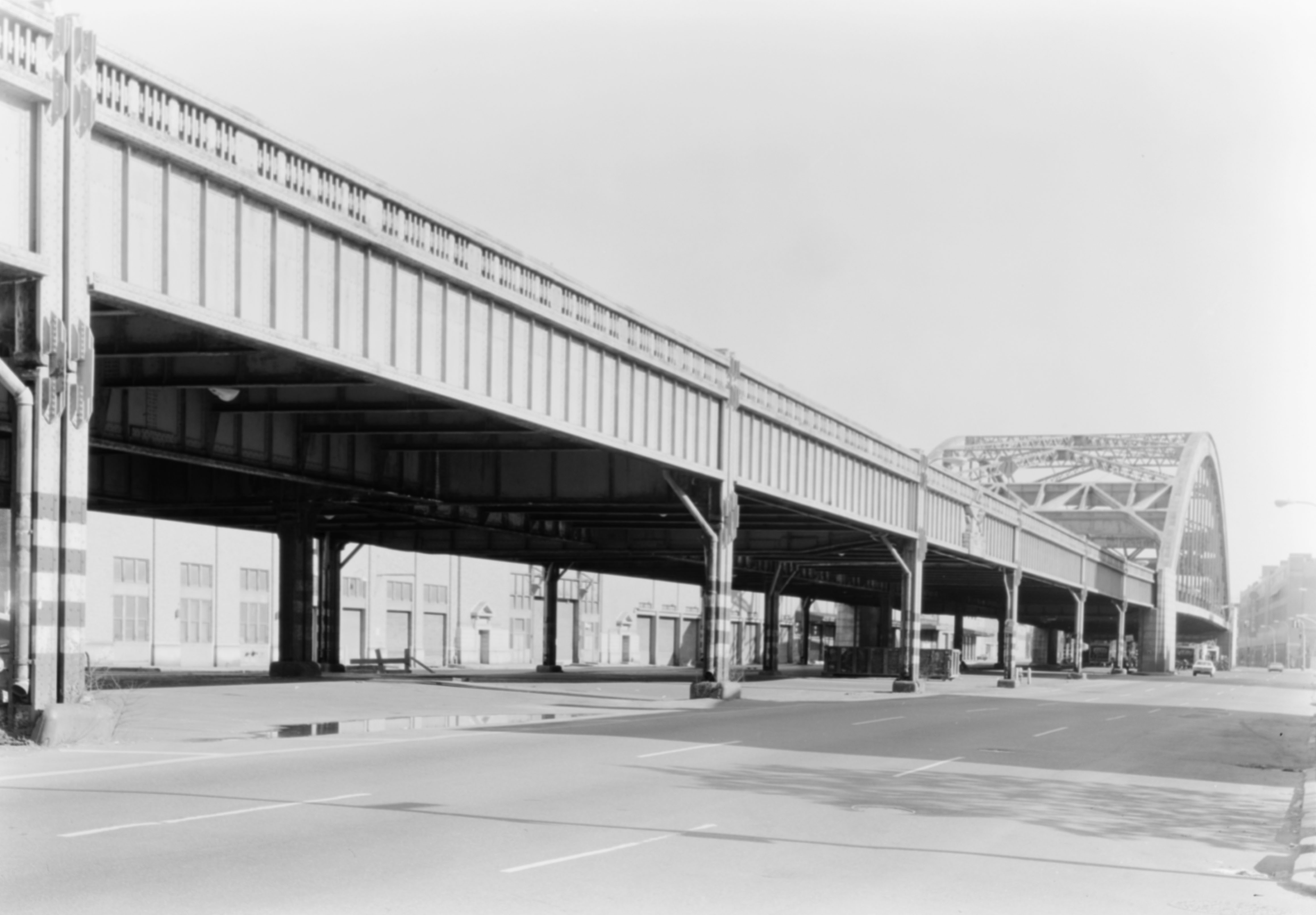 West Side Highway, New York. View of Canal St. Bridge, East side of highway looking N.